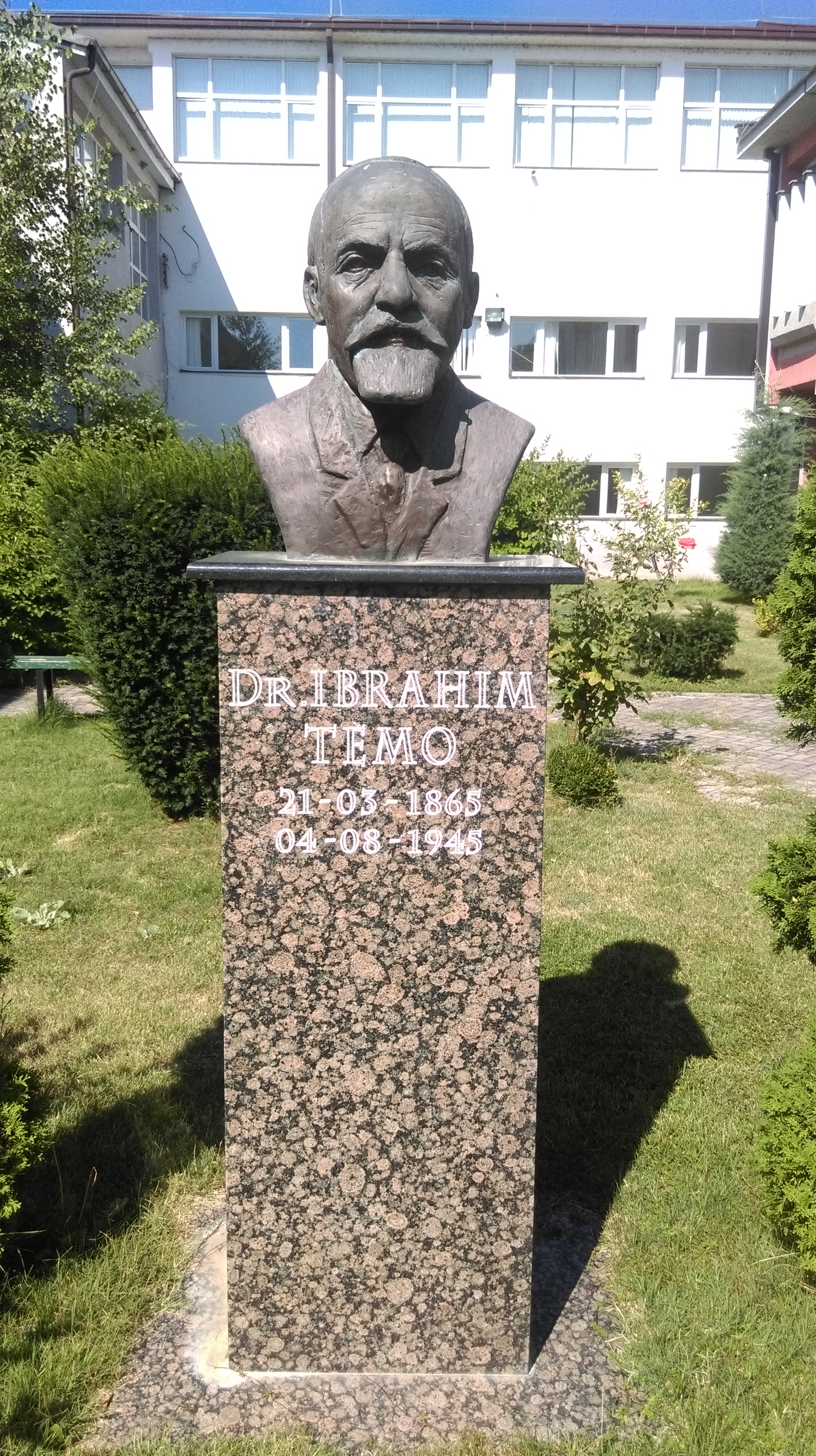 Bust of Ibrahim Temo, located at the Albanian high school in Struga